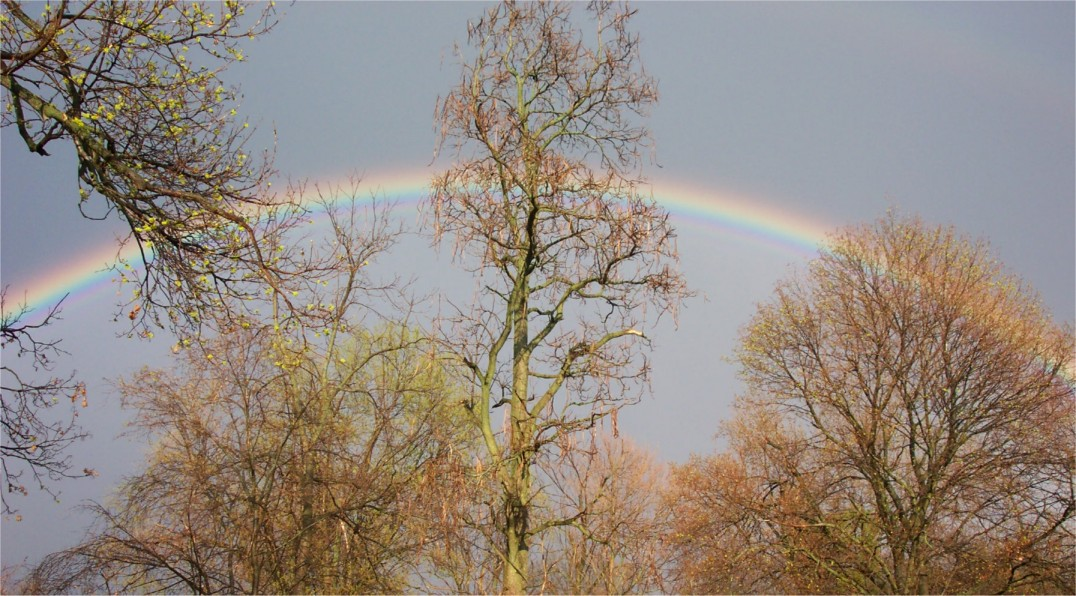 Rainbow